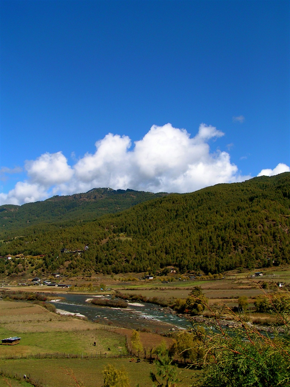 Bumthang Valley, or Choekhor, in Bhutan.